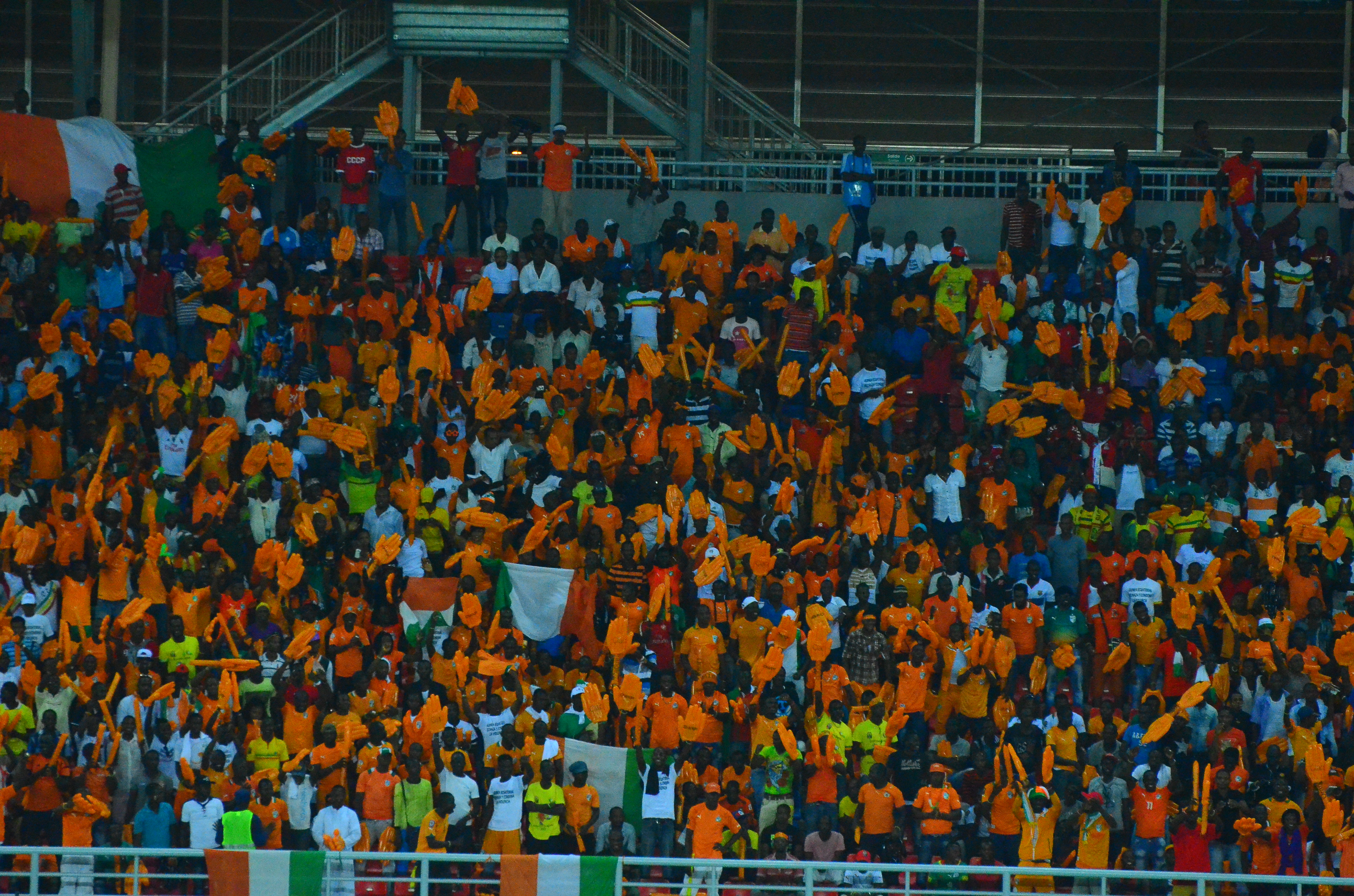 This is a picture of a soccer game (name of it is on file name).